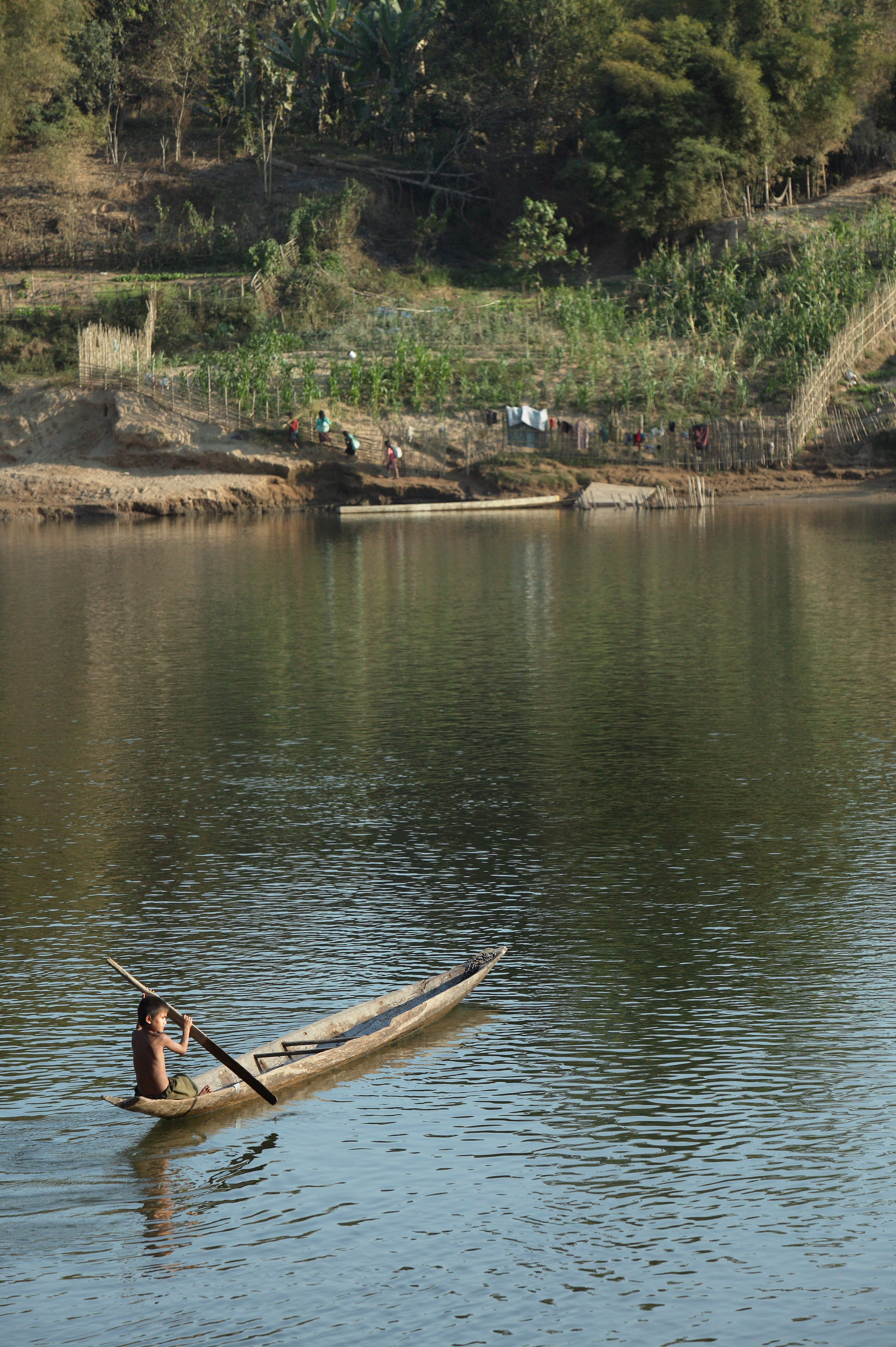 A small boy paddles a boat on the Sekong River which passes through southern Laos before it’s confluence with the Mekong River. Sekong, Lao PDR, 2009